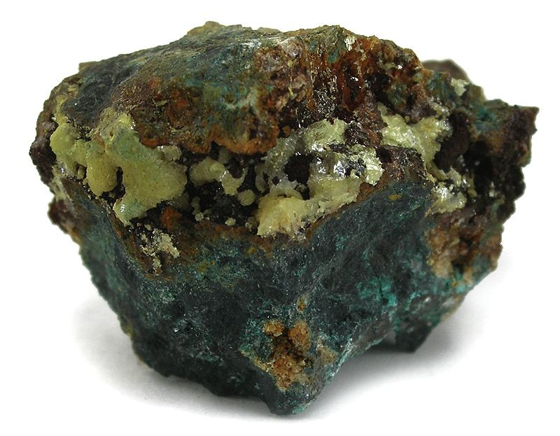 Miersite Locality: Broken Hill Proprietary Mine (Proprietary Mine; BHP Mine), Broken Hill, Yancowinna County, New South Wales, Australia (Locality at ) Size: 4.9 x 3.2 x 2.8 cm. This piece features bright yellow, eye-visible miersite crystals, richly emplaced on ore matrix. This is a very rich specimen with unusual display aesthetics for this important and very rare silver/copper species (it is a startlingly simple silver and copper iodide, (Ag,Cu)I ). A very rich specimen, obviously validated, which I exchanged from the South Australian Museum last year (2008). The Museum label accompanies the piece. One seldom sees such a piece for sale (let alone, so well documented).